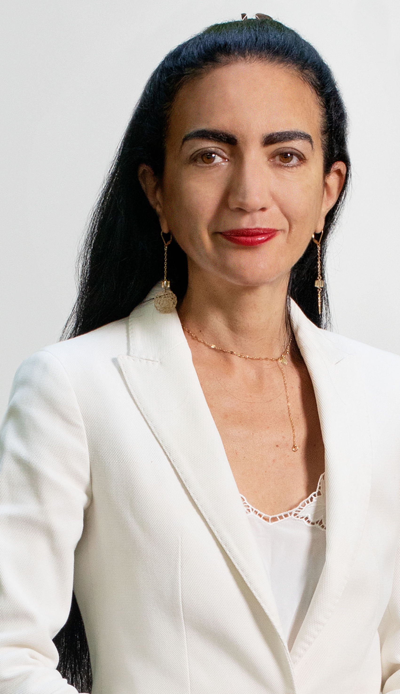 Dr. Tina Malti